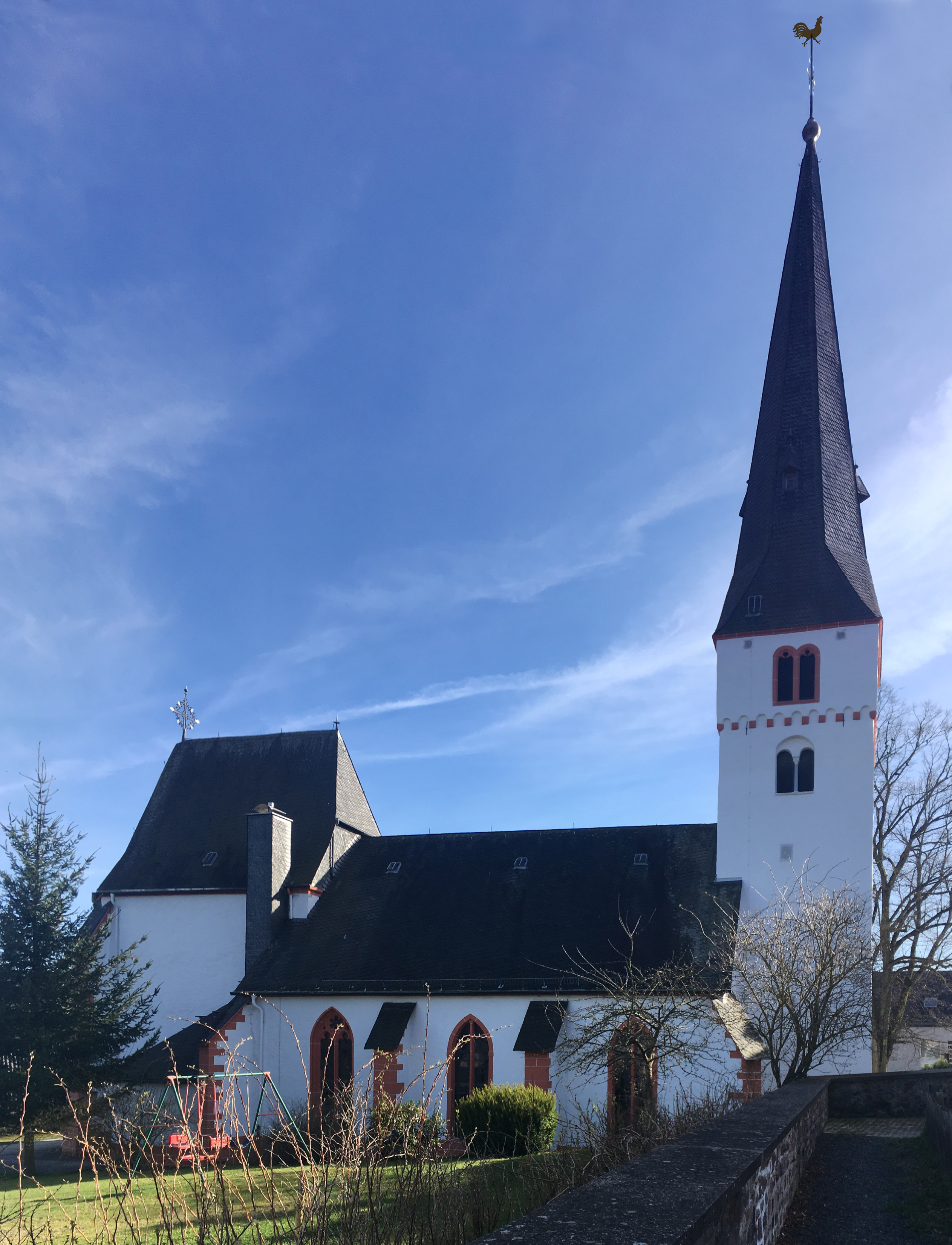 Lutheran Church Thalfang, Germany, seen from north